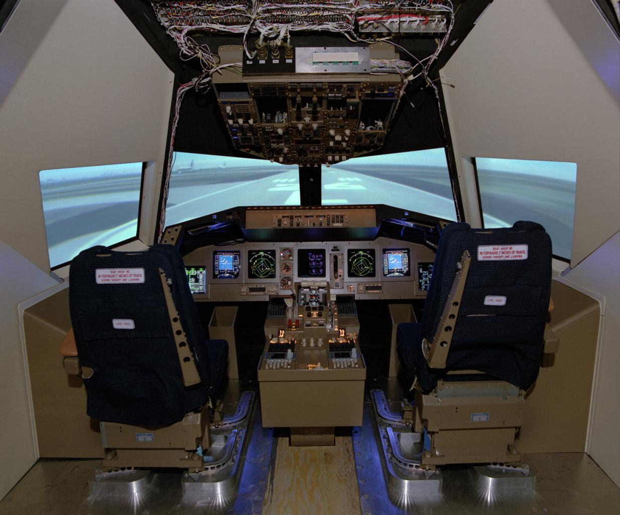 Research Flight Deck Simulator. In building 1268 A. Cockpit Motion Facility (CMF), NASA Langley Research Center.